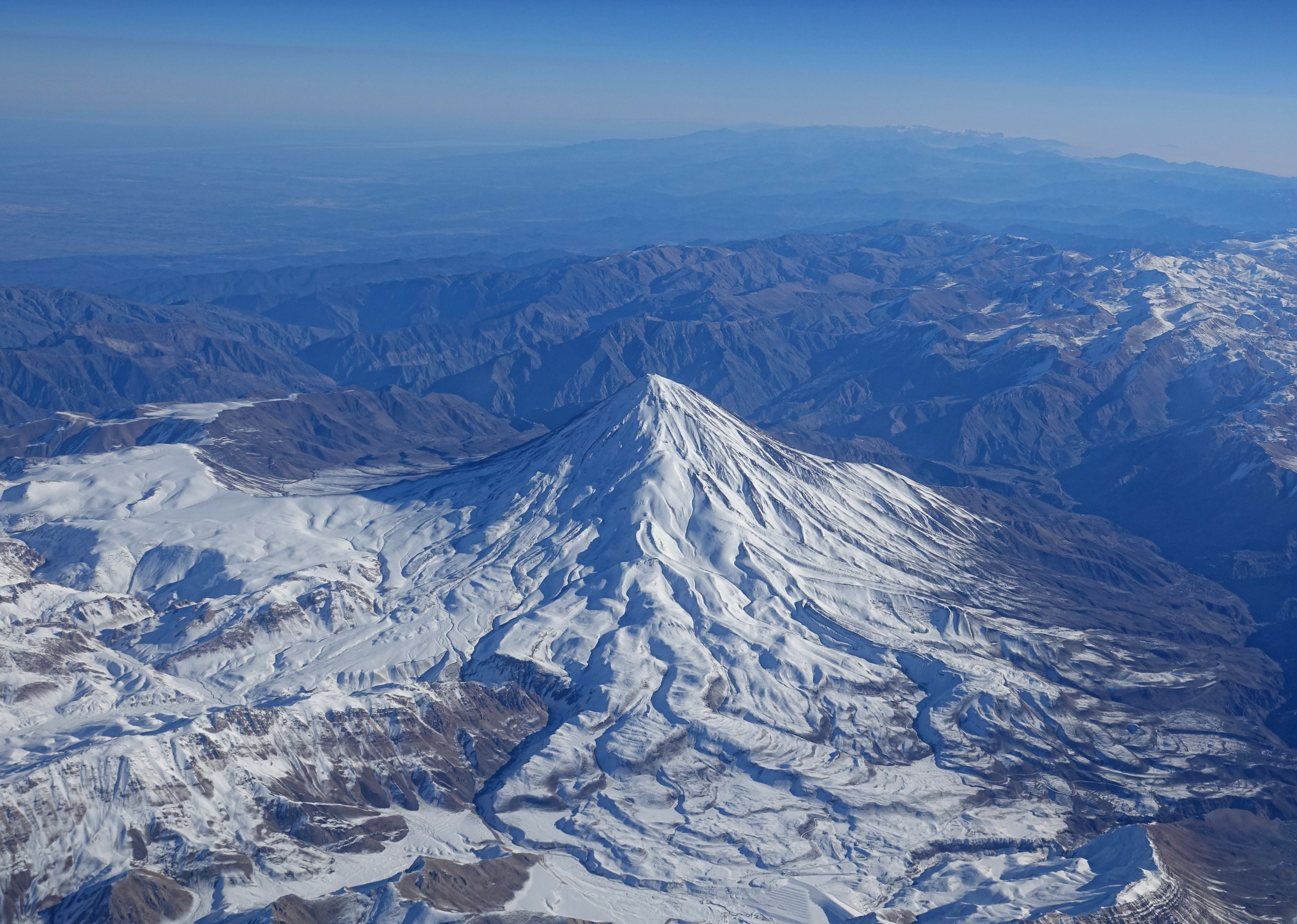 Mount Damavand in Mazandarand Province, Iran, seen from the southwest, above the Lar Dam.